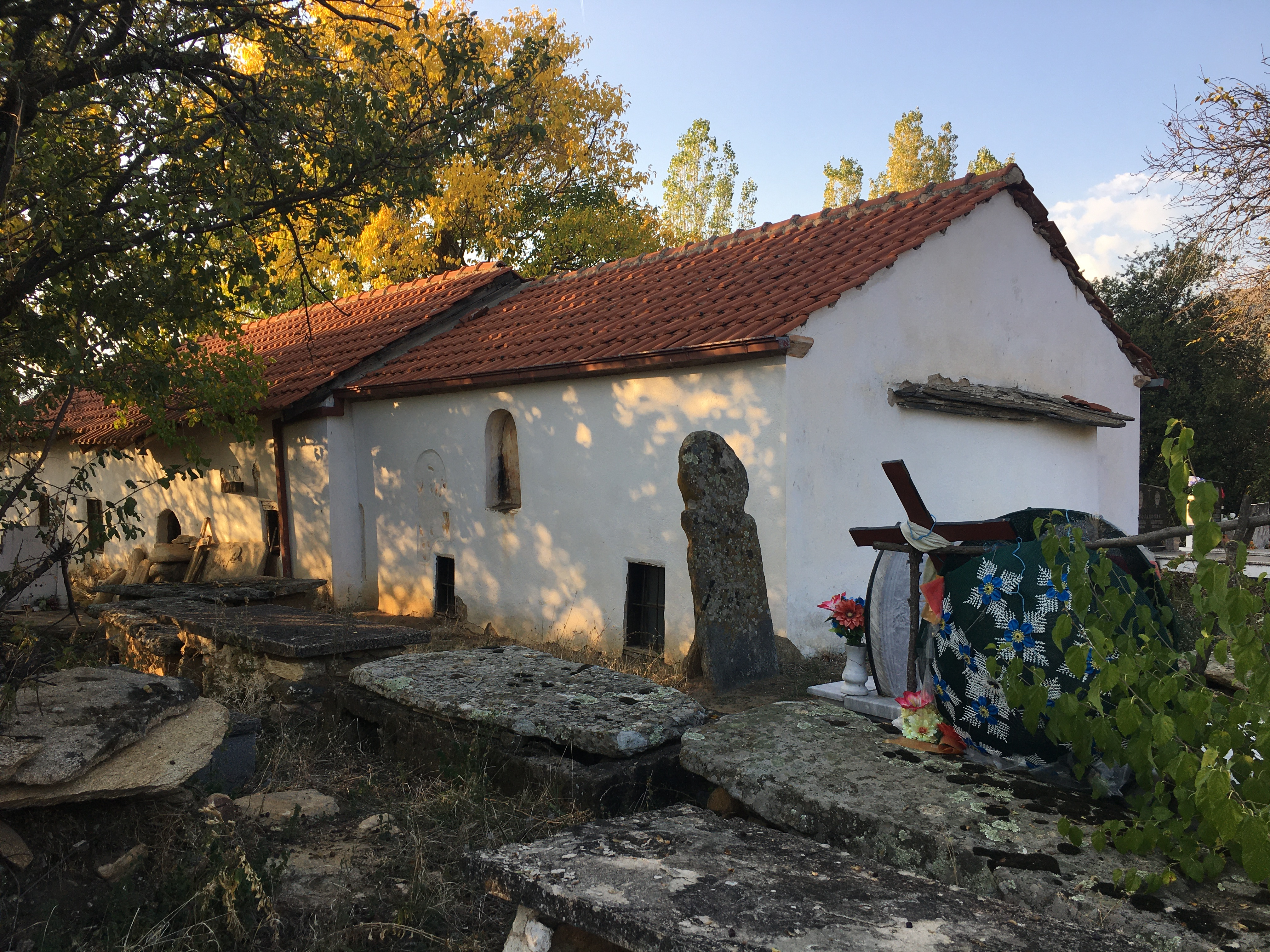 St. George Church in the village of Slepče, Prilep